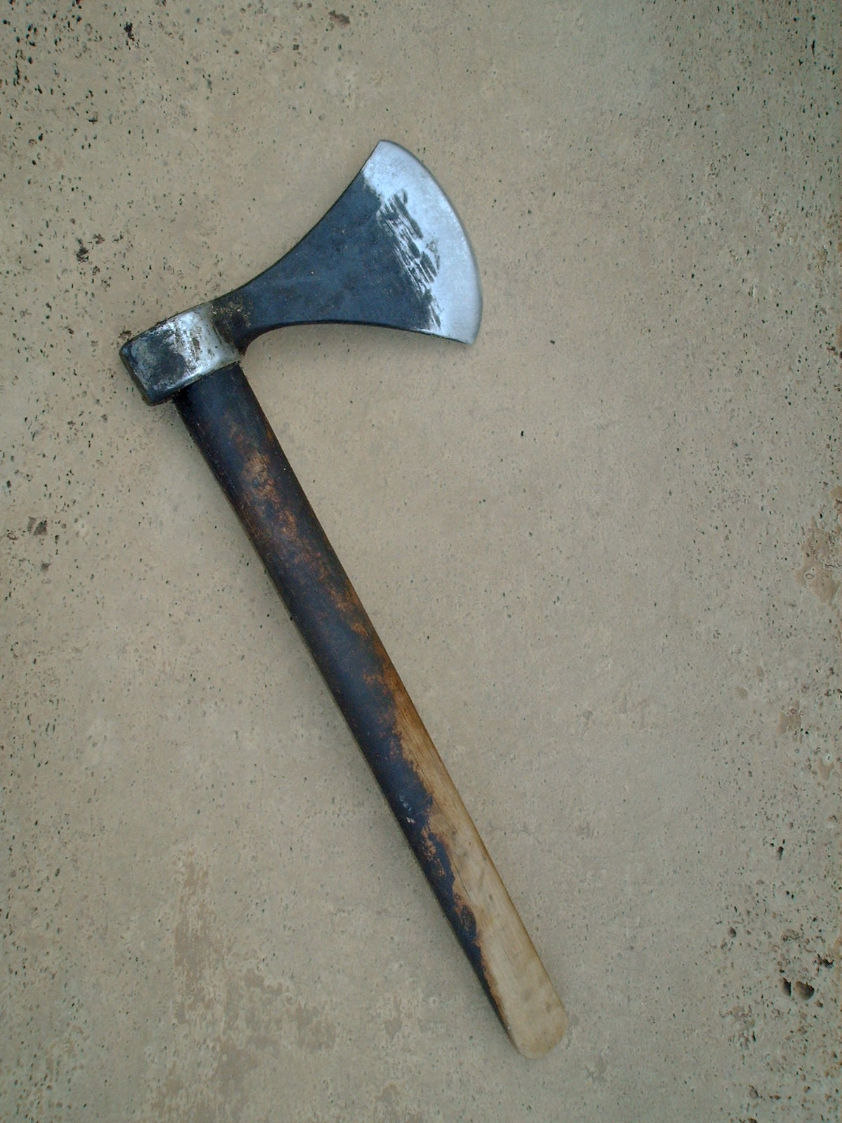 Axe for cork extraction